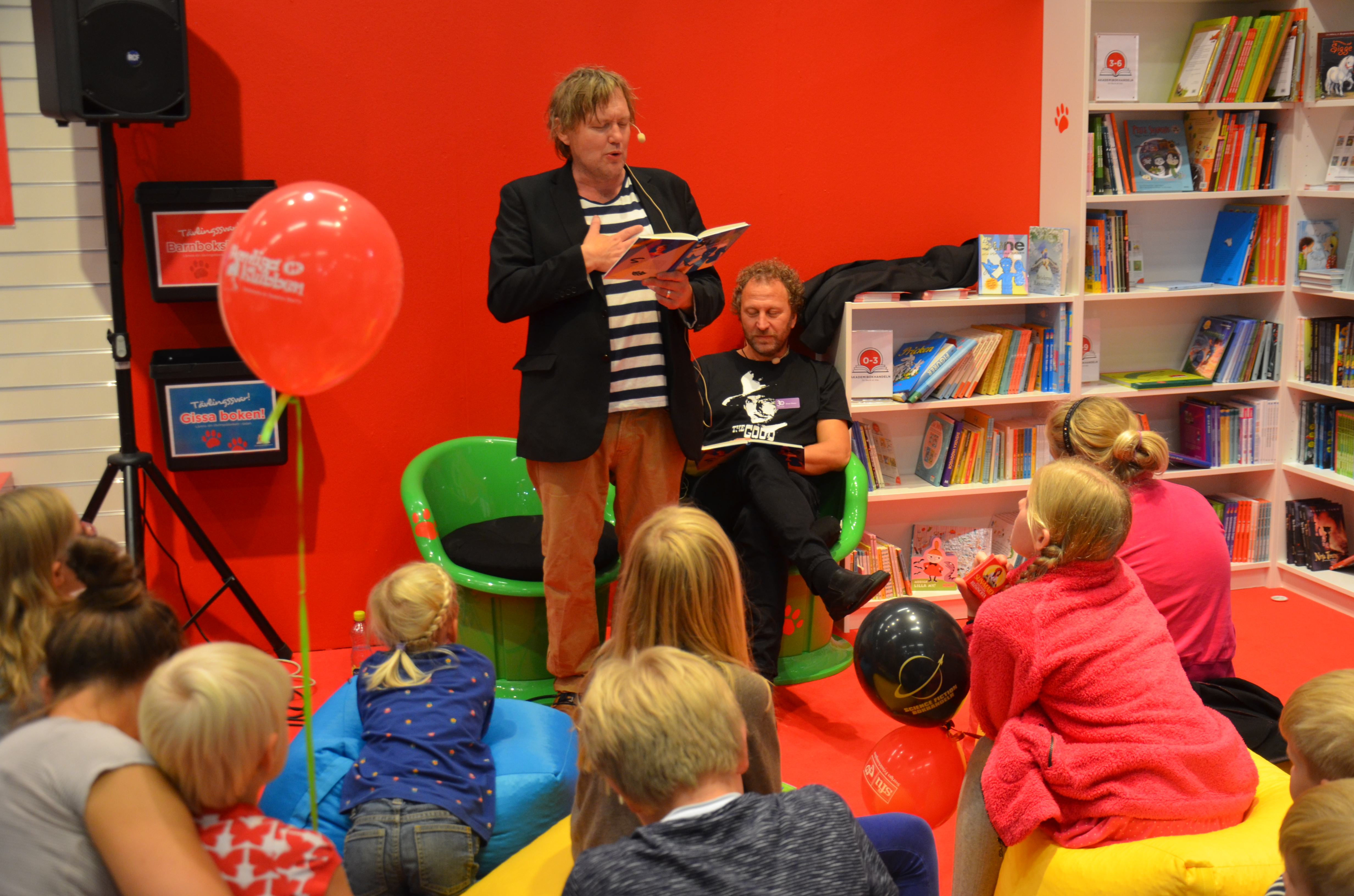 Anders Jacobsson och Sören Olsson på högläsning ur Sune-bok på Bokmässan i Göteborg 2014